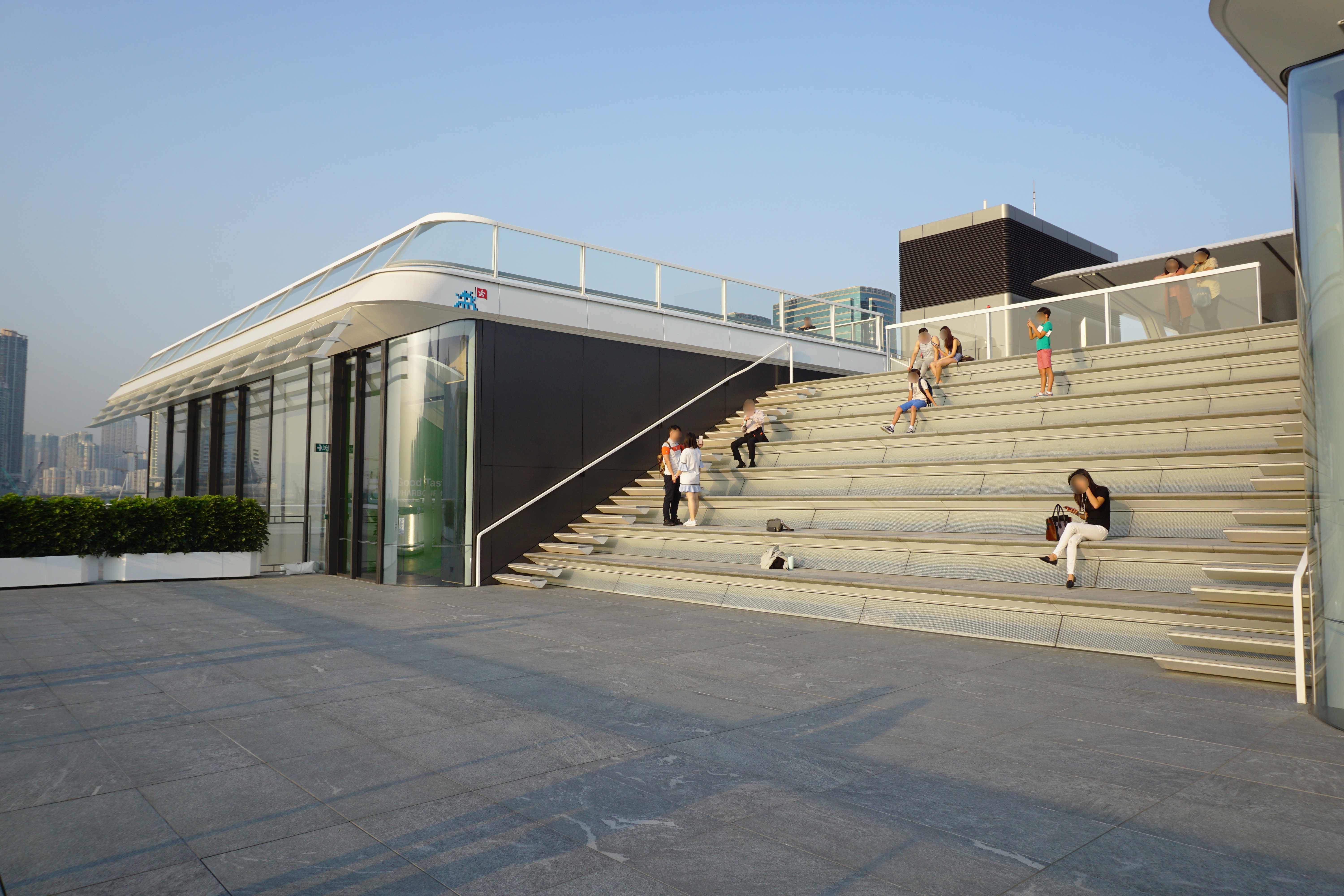 Ocean Terminal in Tsim Sha Tsui, Hong Kong.